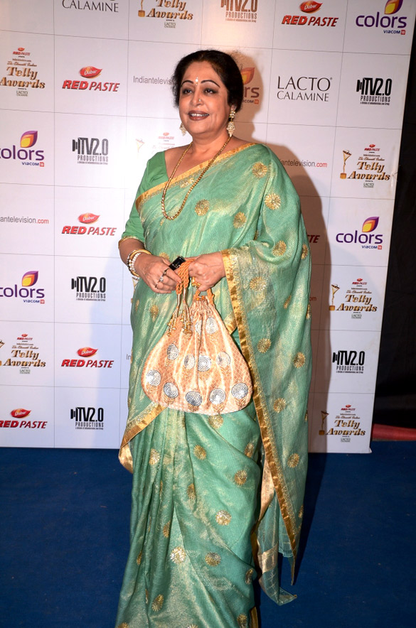 colors indian telly awards